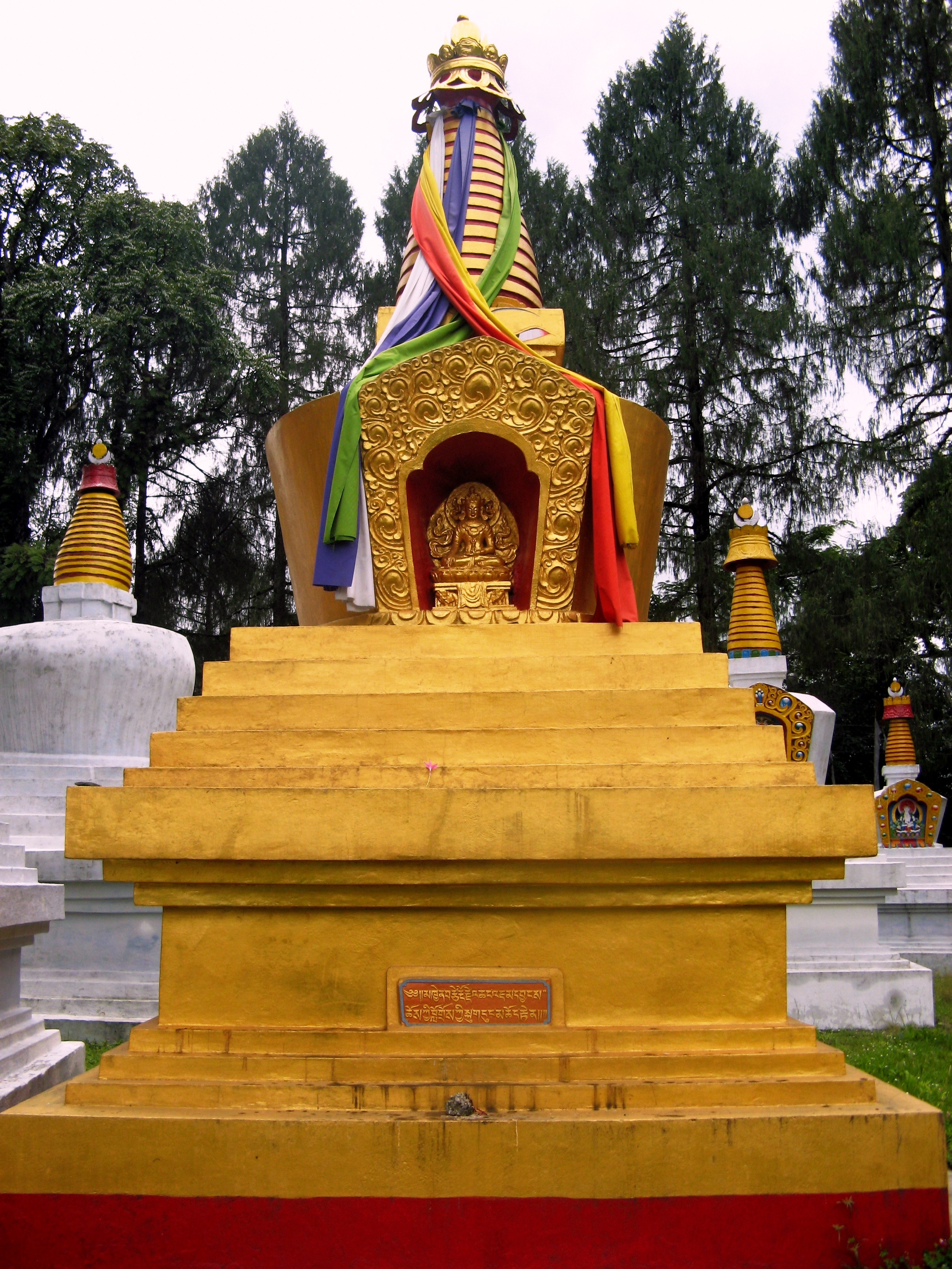 the golden chorten at the tashiding monastery complex in west sikkim... a chorten is a stupa...which is usually built at a location which a buddhist guru has blessed or prayed on...they are usually filled with ancient relics of various kinds...sometimes they are also filled with soil from different parts of the land like the chorten at norbugang, built for the well being of the land...